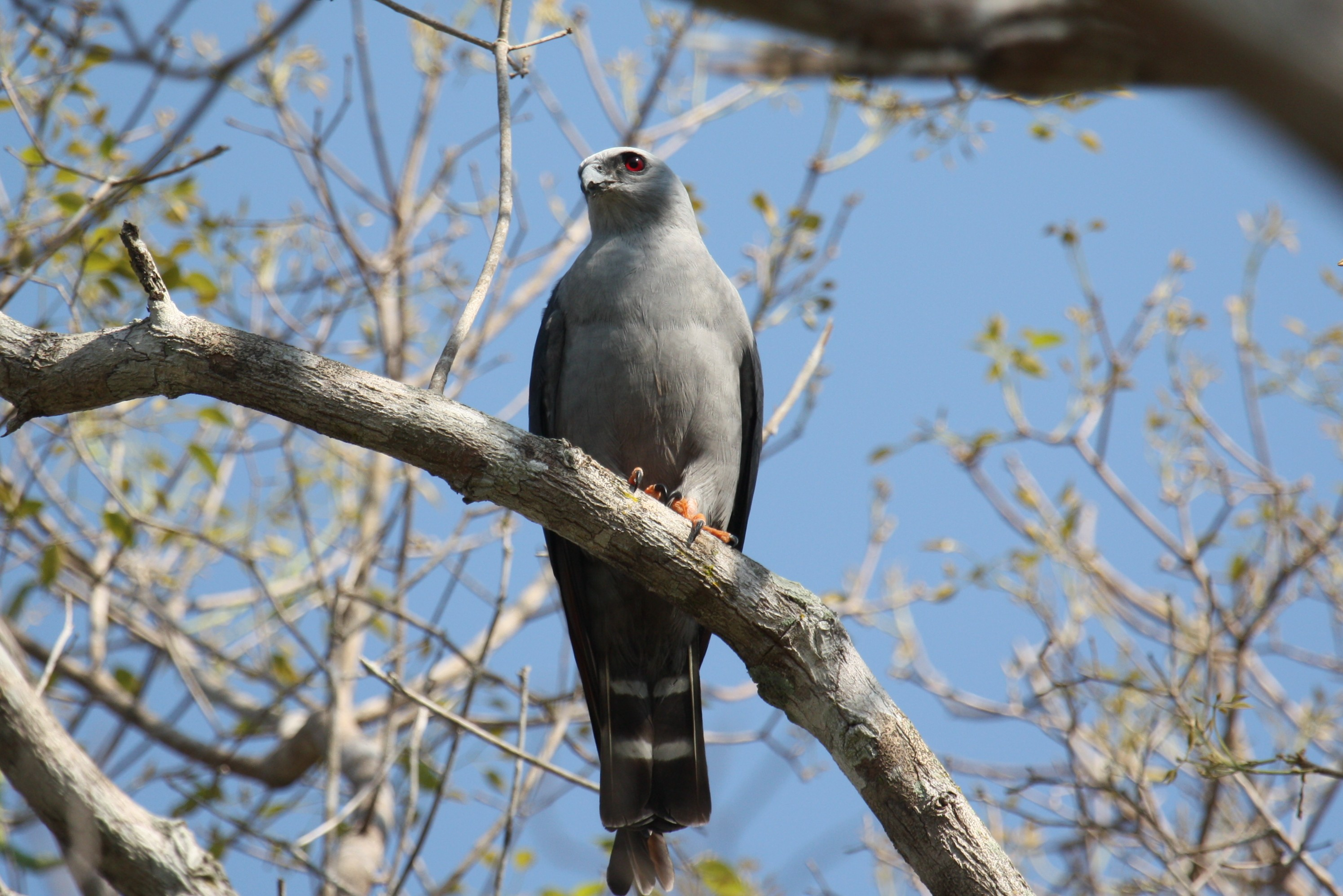 A Plumbeous Kite in Mato Grosso do Sul, Brazil.